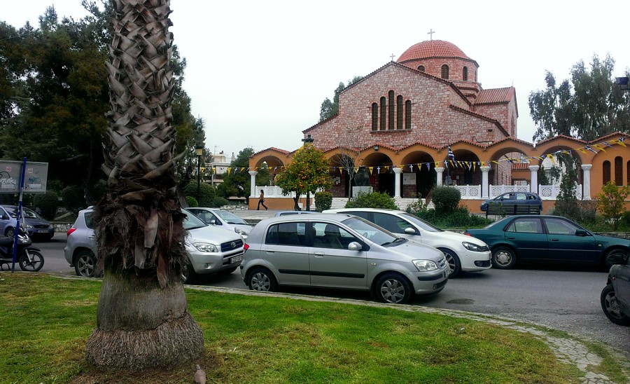 cholargos